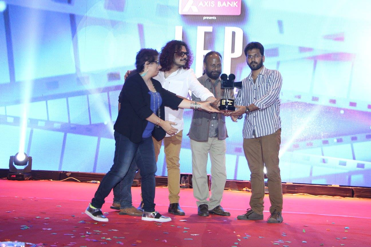 Jury member Ketan Mehta, Raja Sen and Guneet Monga handing over the award to Vijay Vellukutty.